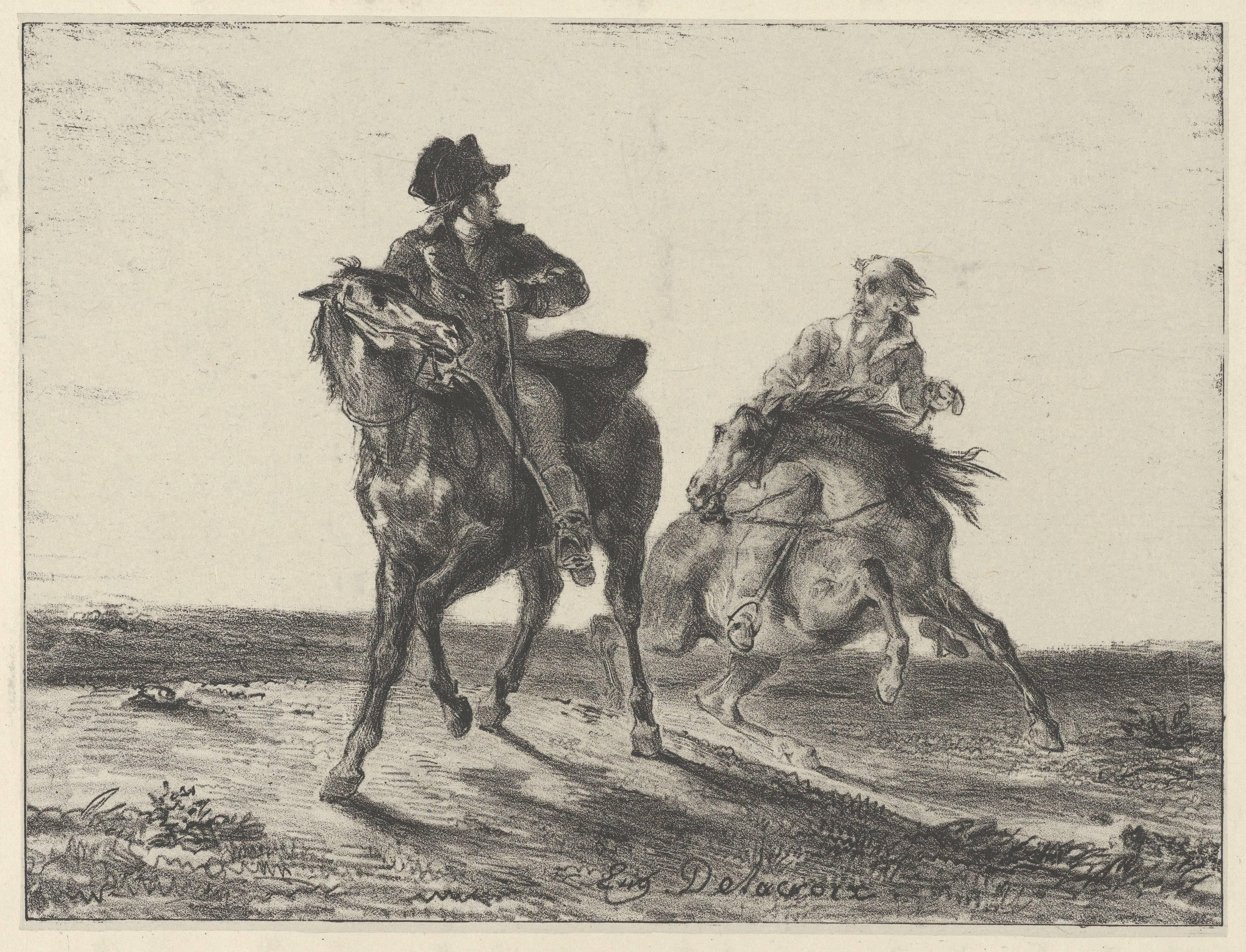 Print; Prints